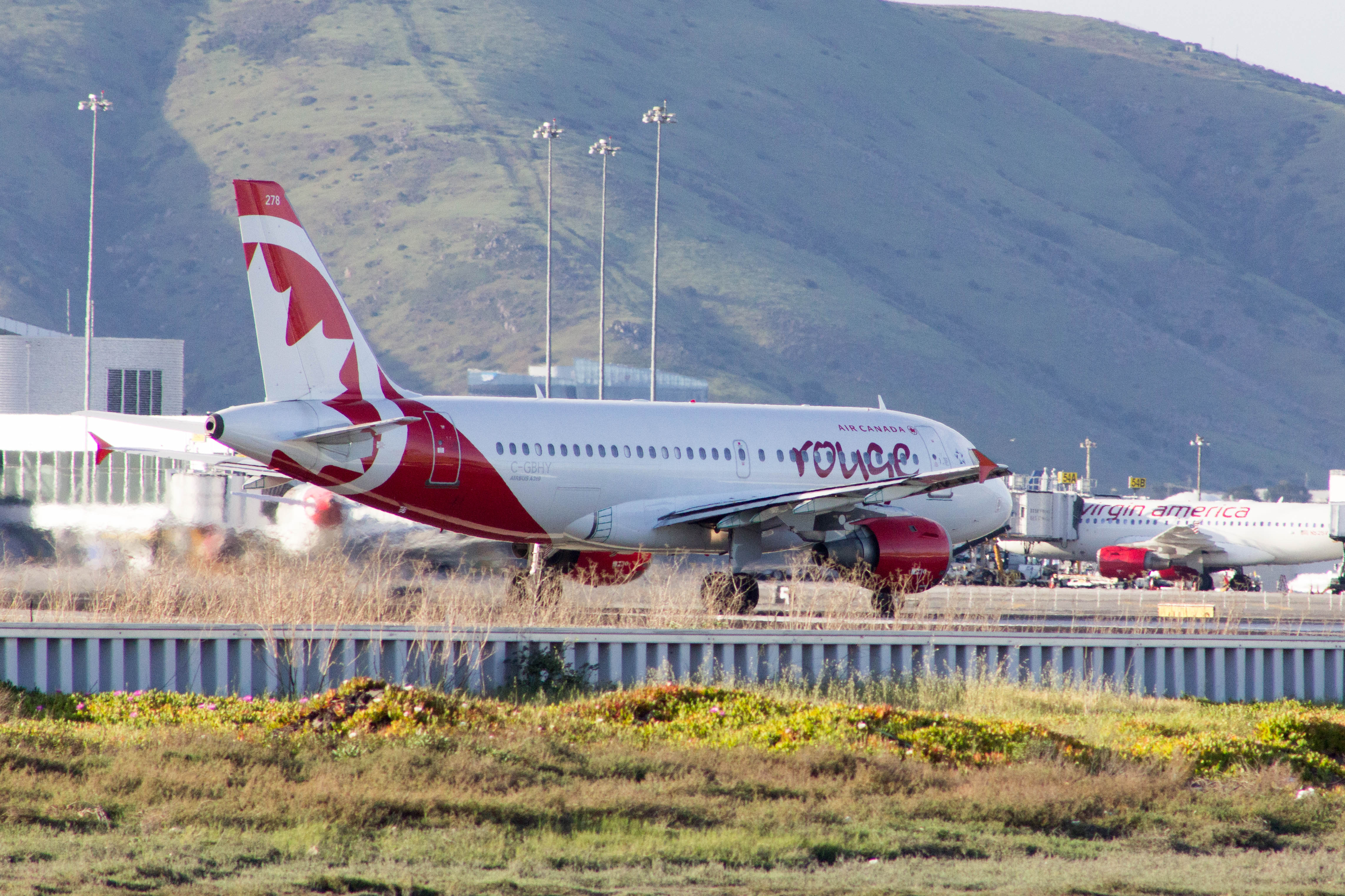 Air Canada Rouge Airbus A319-114 C-GBHY